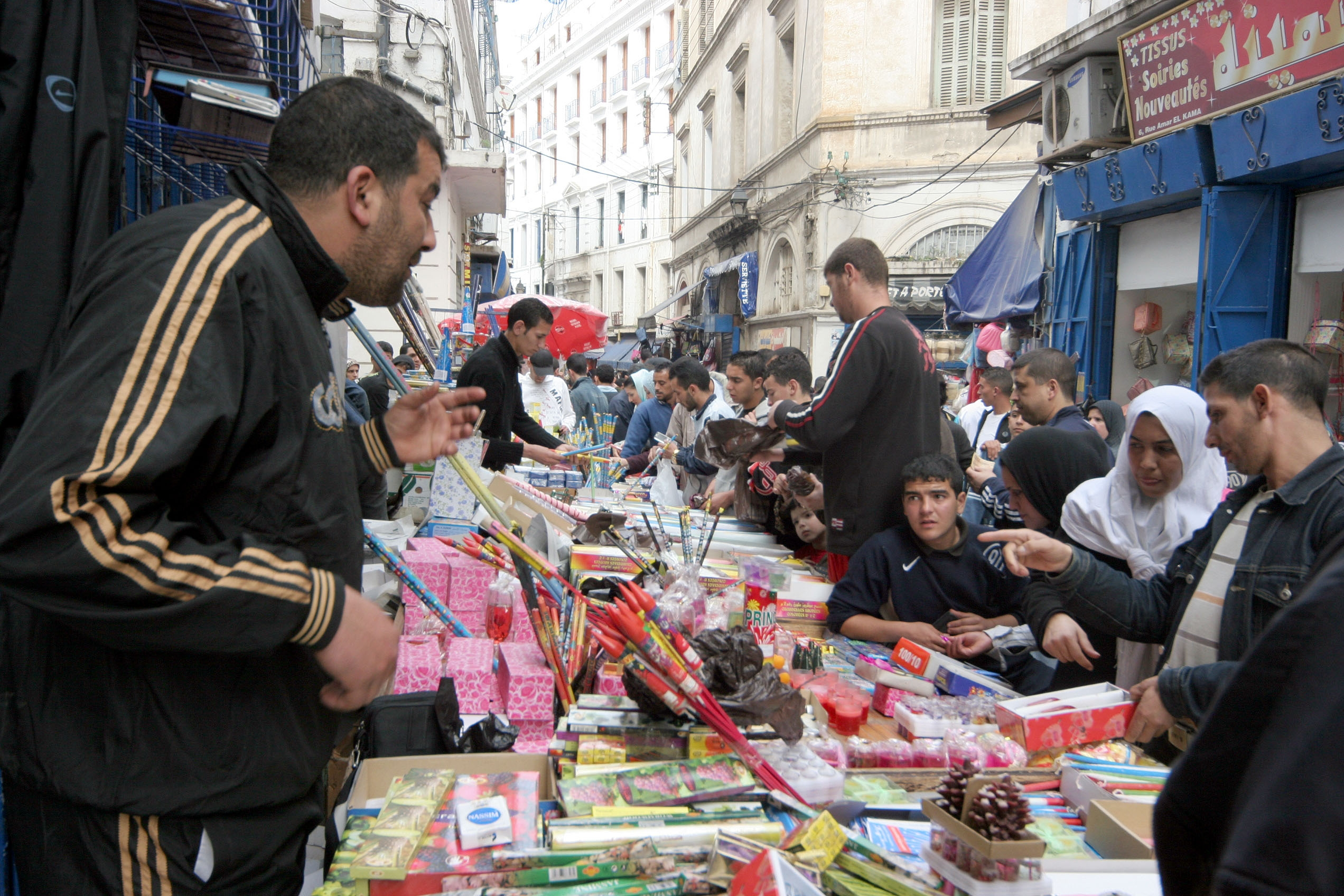 [Mohand Ouali] The Maghreb honoured the Prophet's birthday with fireworks and special meals. أحيا المغرب الكبير مولد الرسول الكريم بالألعاب النارية والوجبات الخاصة Le Maghreb a fêté la naissance du Prophète avec des feux d'artifice et des plats spéciaux. Full story: القصة L'article